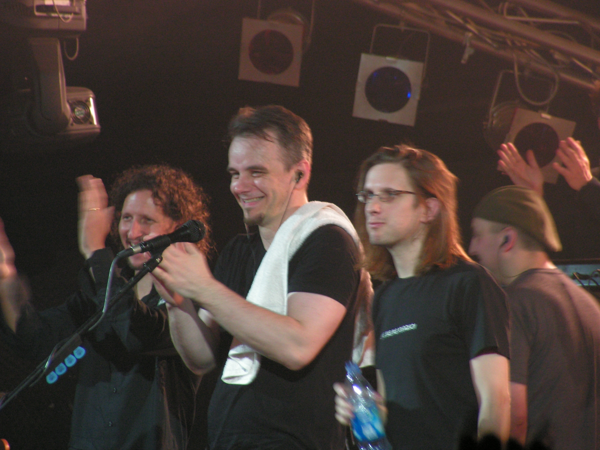 English band Porcupine Tree on stage. From left to right: John Wesley (guitar), Gavin Harrison (drums), Steven Wilson (vocals and guitar) and Colin Edwin (bass). Photo taken on November 25th, 2005 in Trezzo sull'Adda (Italy)